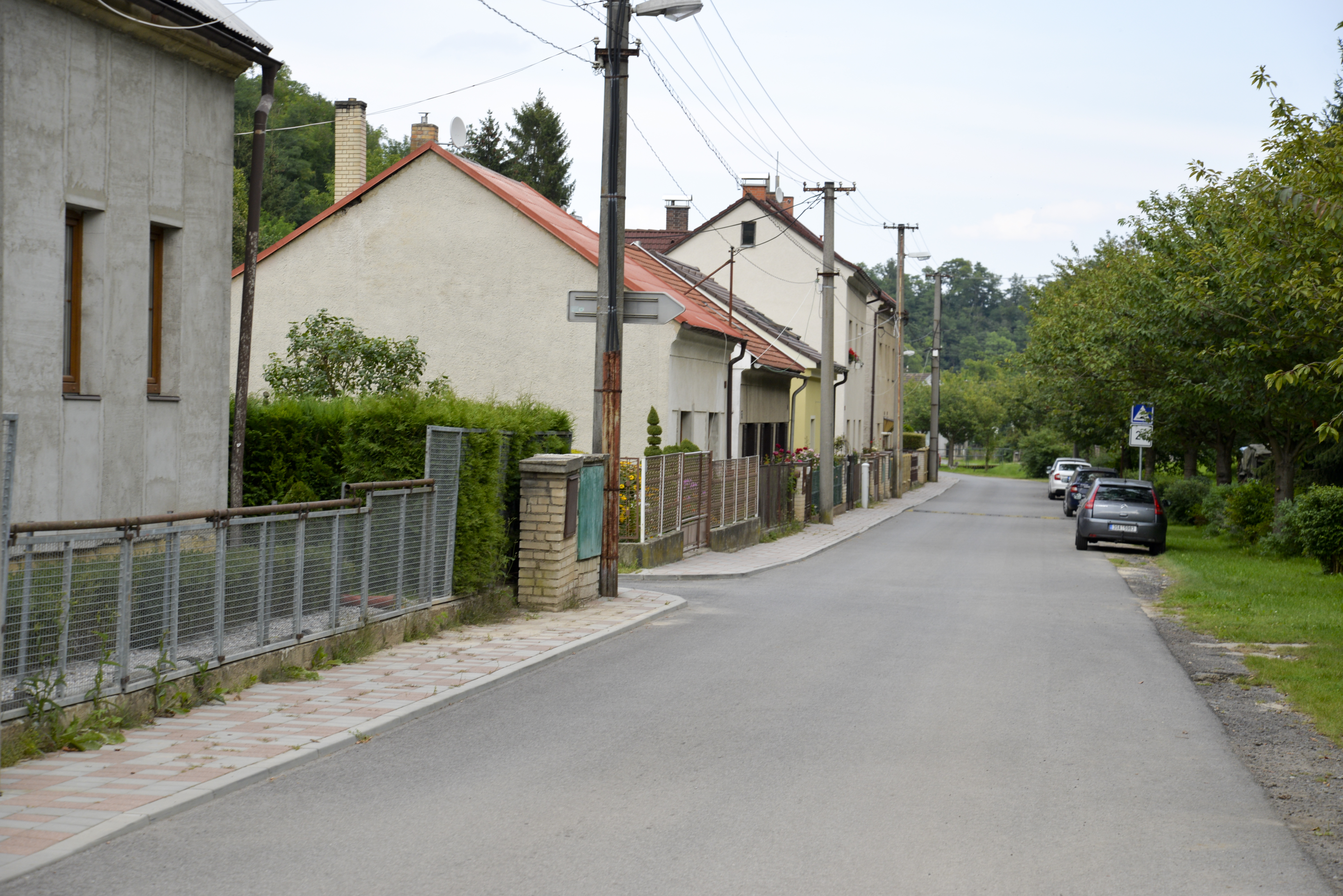 Podlázky - part of city Mladá Boleslav|Mladá Boleslav in Mladá Boleslav District